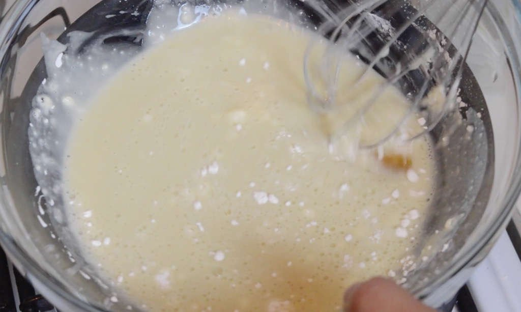 Thai Pandan Custard Recipe (Sangkaya Bai Toey)